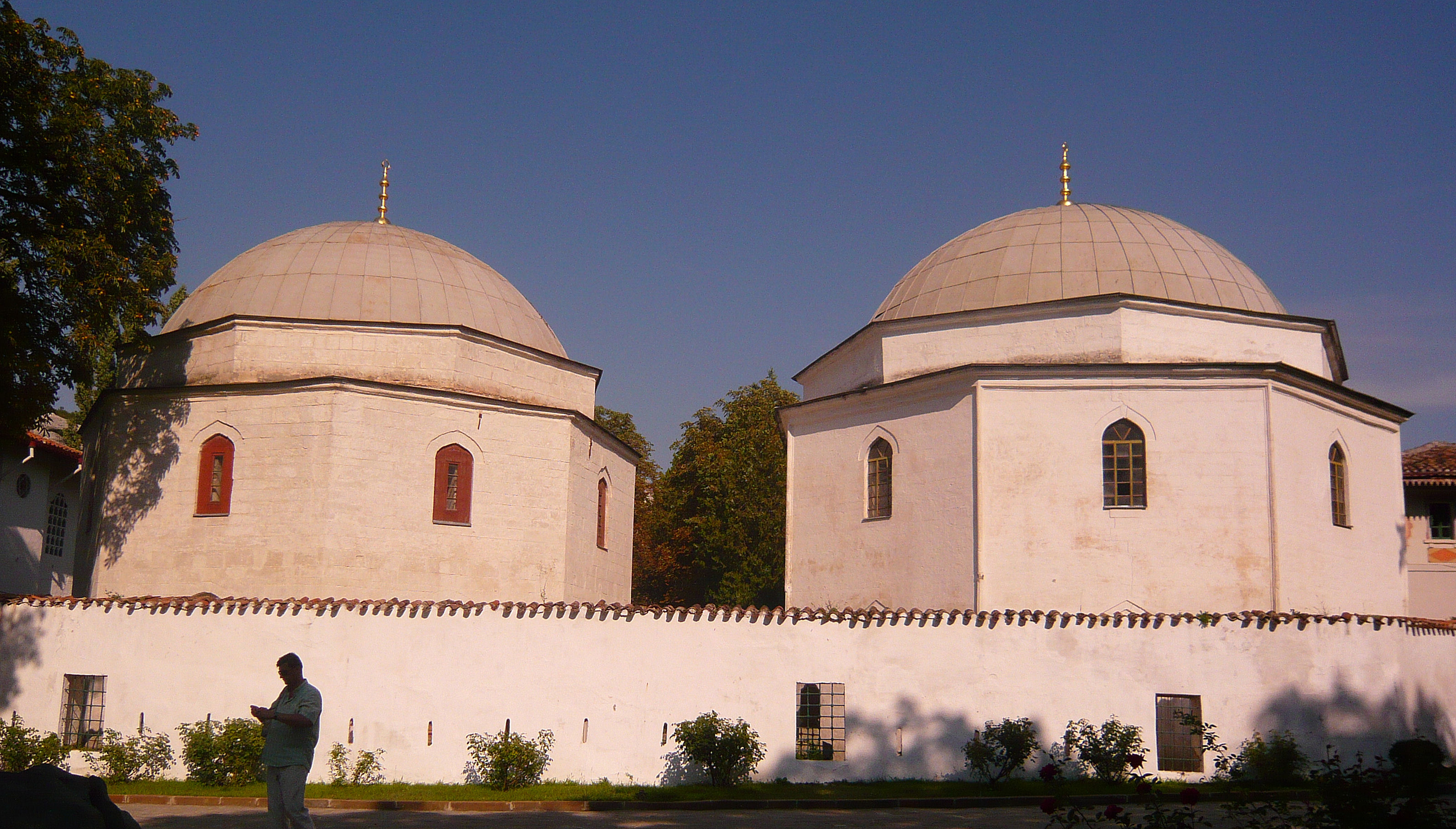 Khans cemetery in Bakhchisaray Palace